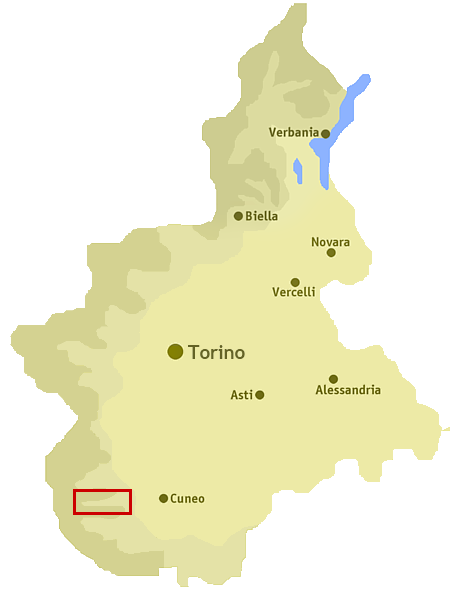 Position of the valley Valle Grana